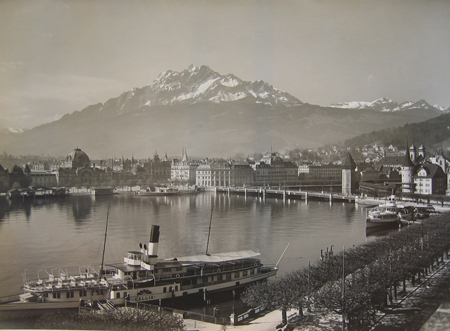 Lucern, Pilatus